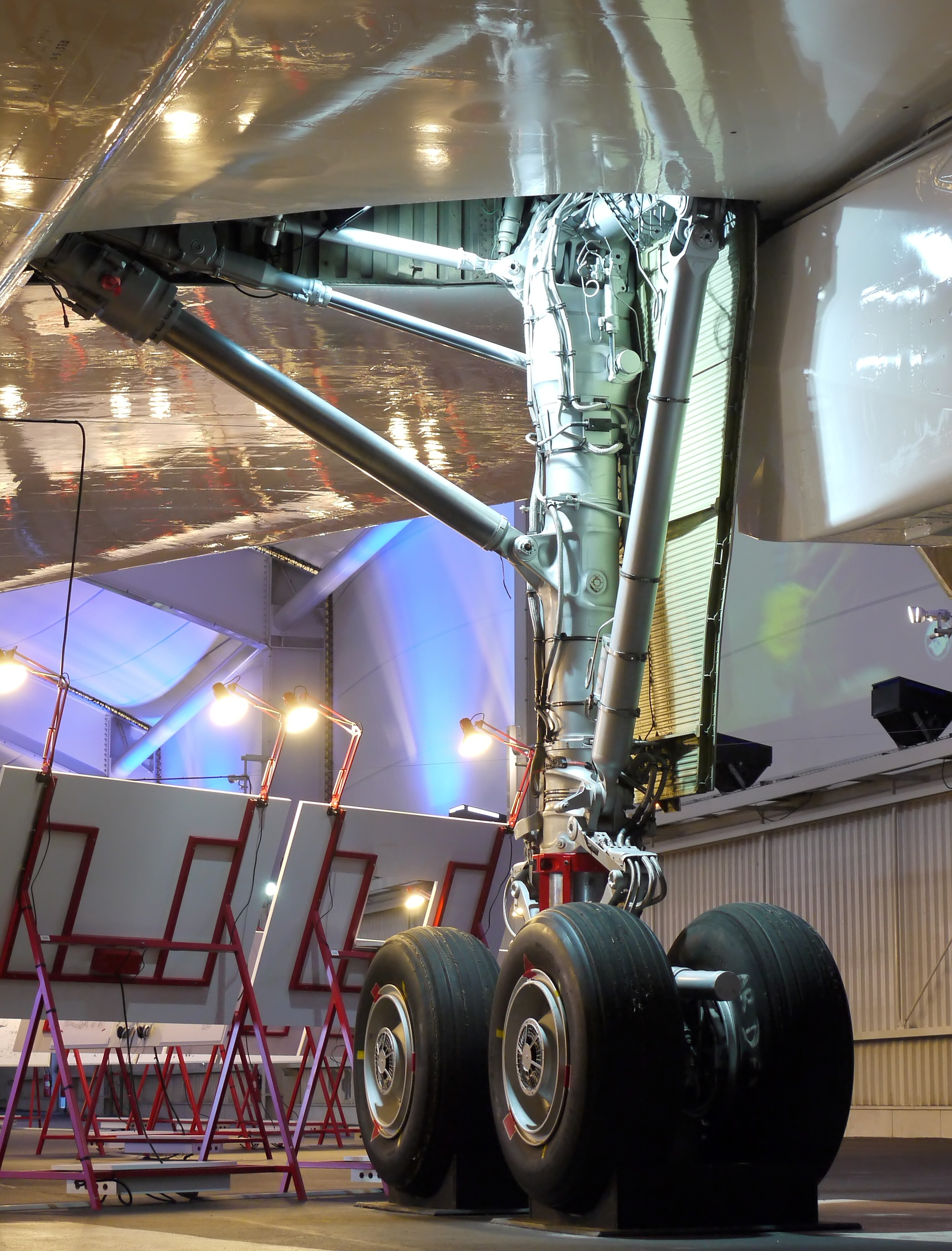 Main undercarriage of the Concord , Museum of Air and Space Paris, Le Bourget (France)